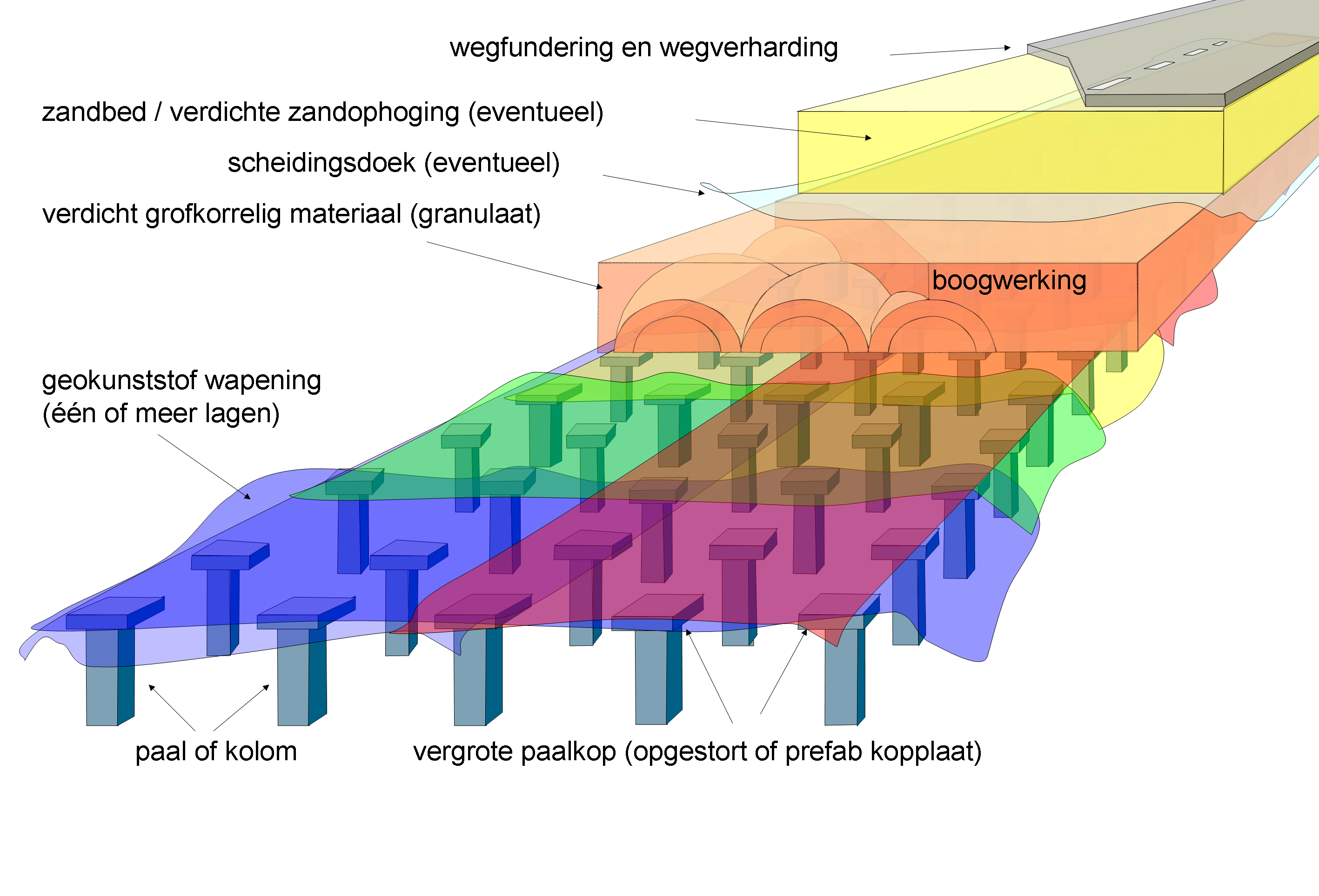 piled embankment